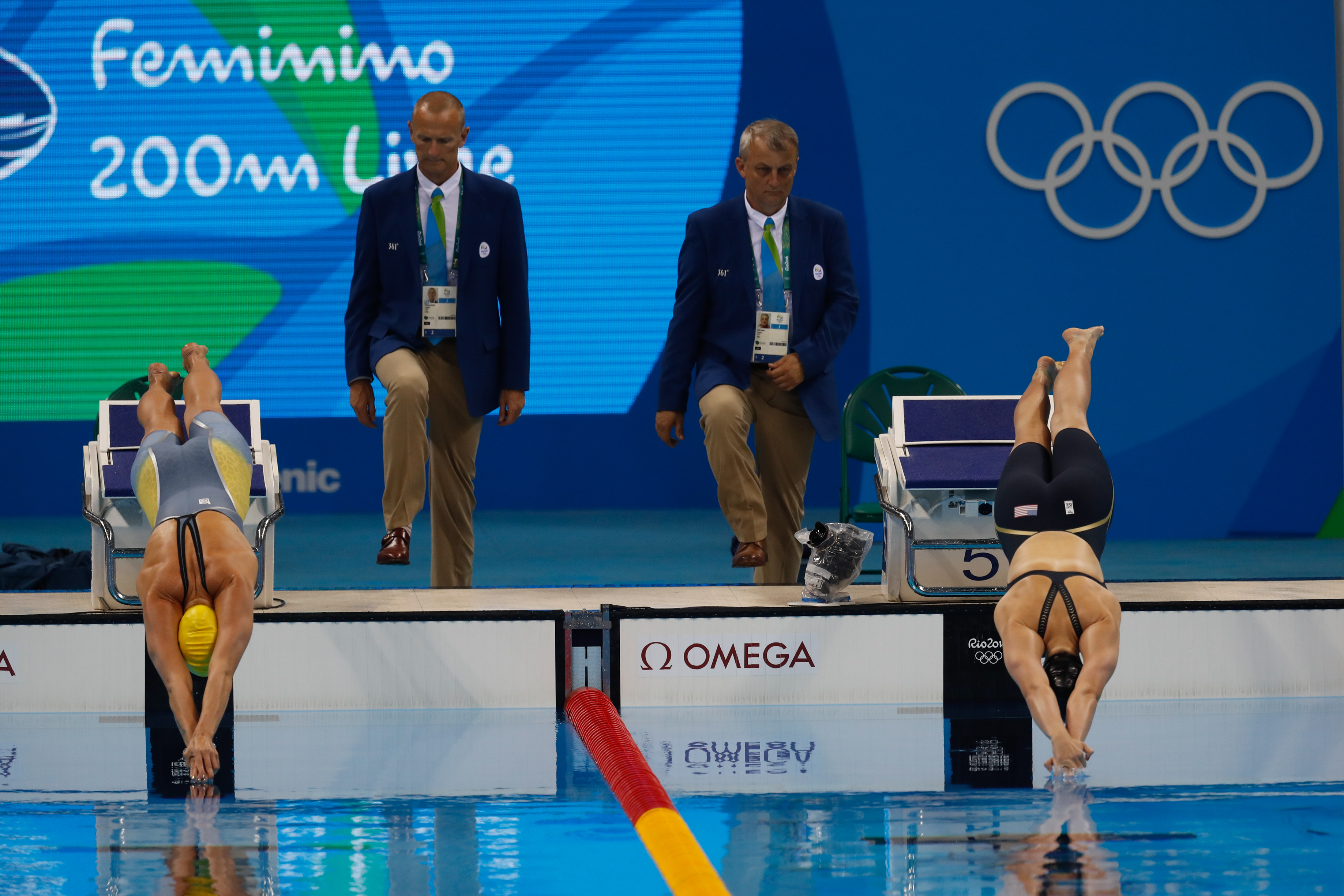 Rio de Janeiro - Norte-americana Katie Ledecky vence 200m nado livre nos Jogos Rio 2016. (Fernando Frazão/Agência Brasil)